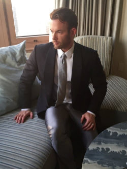 Founder & Artistic Director of ETD